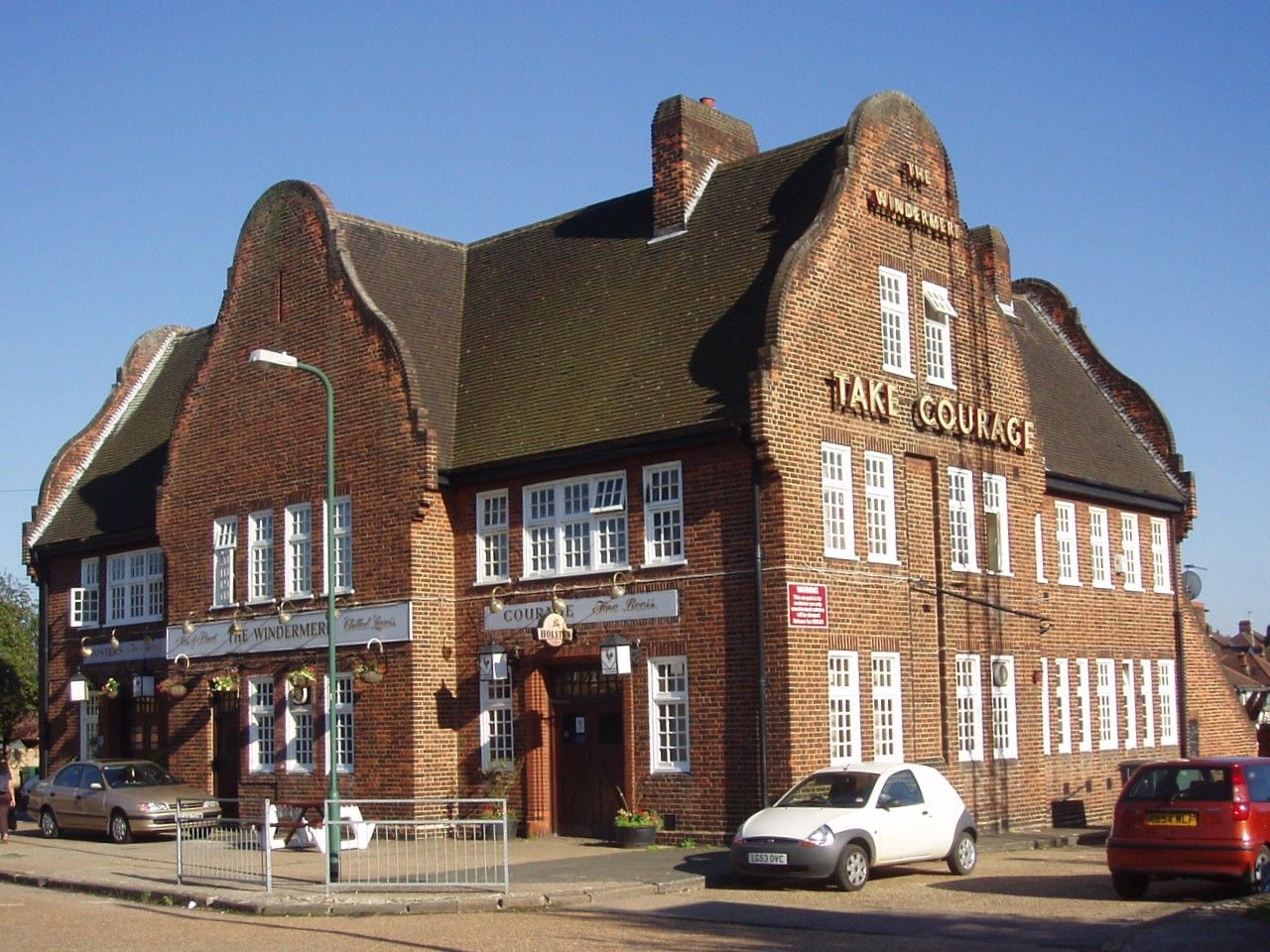 A pub by South Kenton station. Address: Windermere Avenue. Owner: Courage (former). Links: Beer in the Evening CAMRA National Inventory